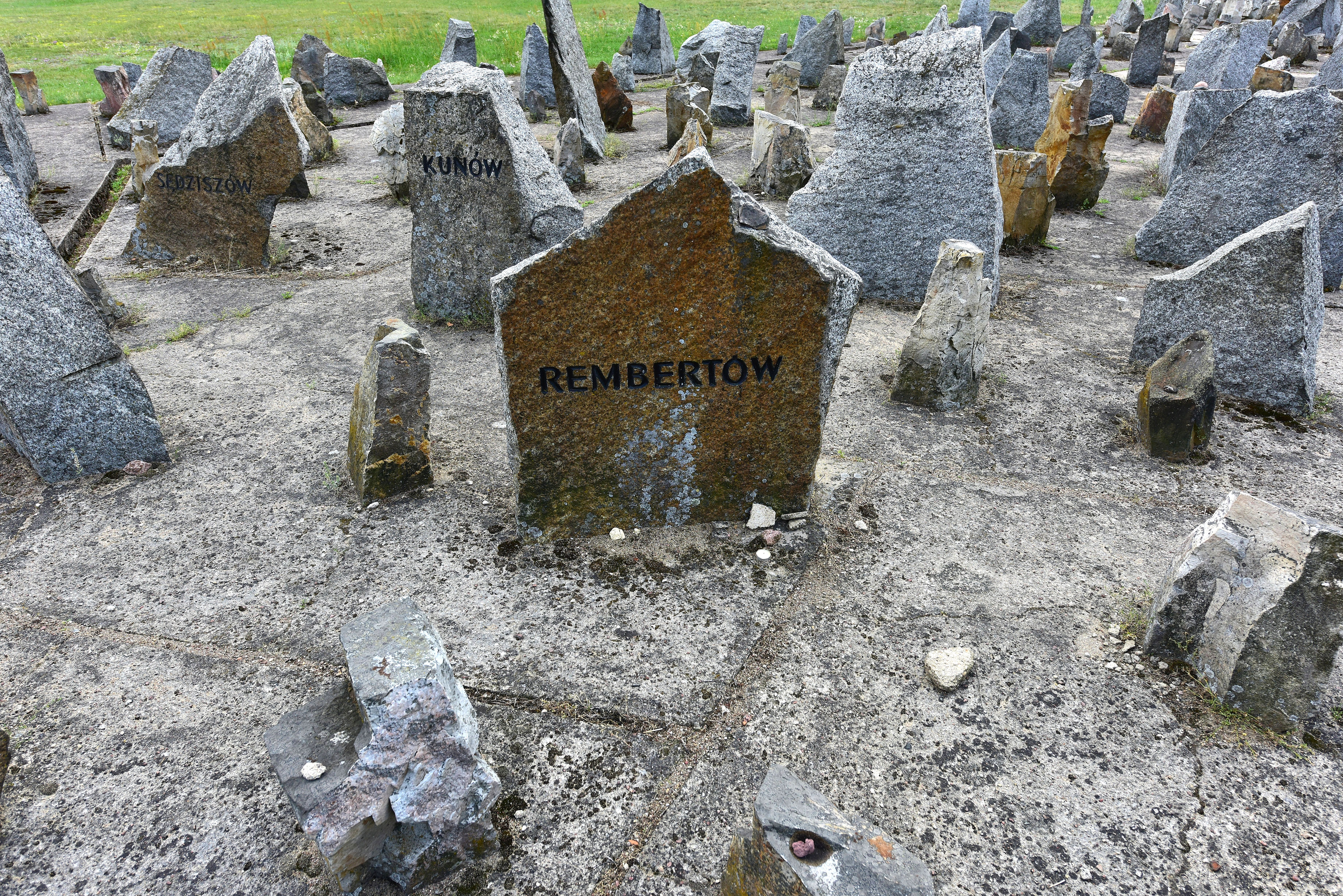 Treblinka death camp memorial. A stone commemorating the murdered Jews from Rembertów